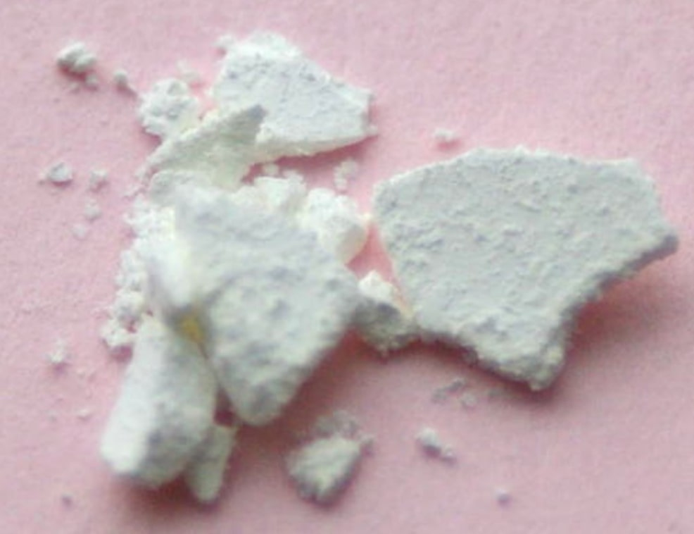 Dy2O3 powder (dysprosium(III) oxide)